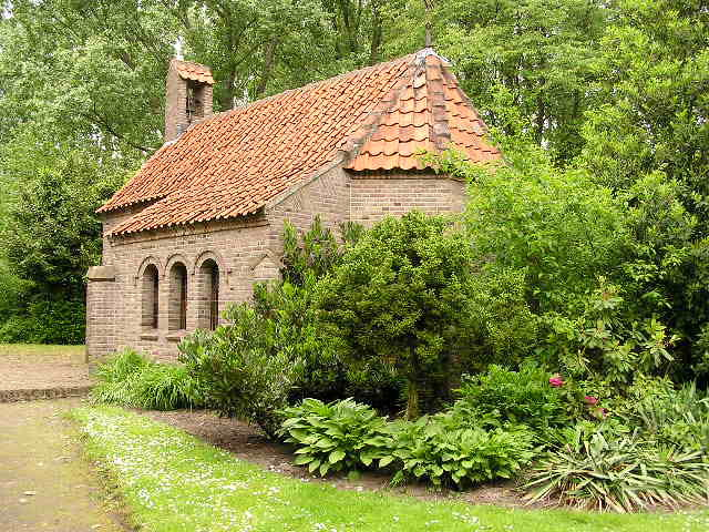 Hooidonk Chaple near Nuenen, the Netherlands